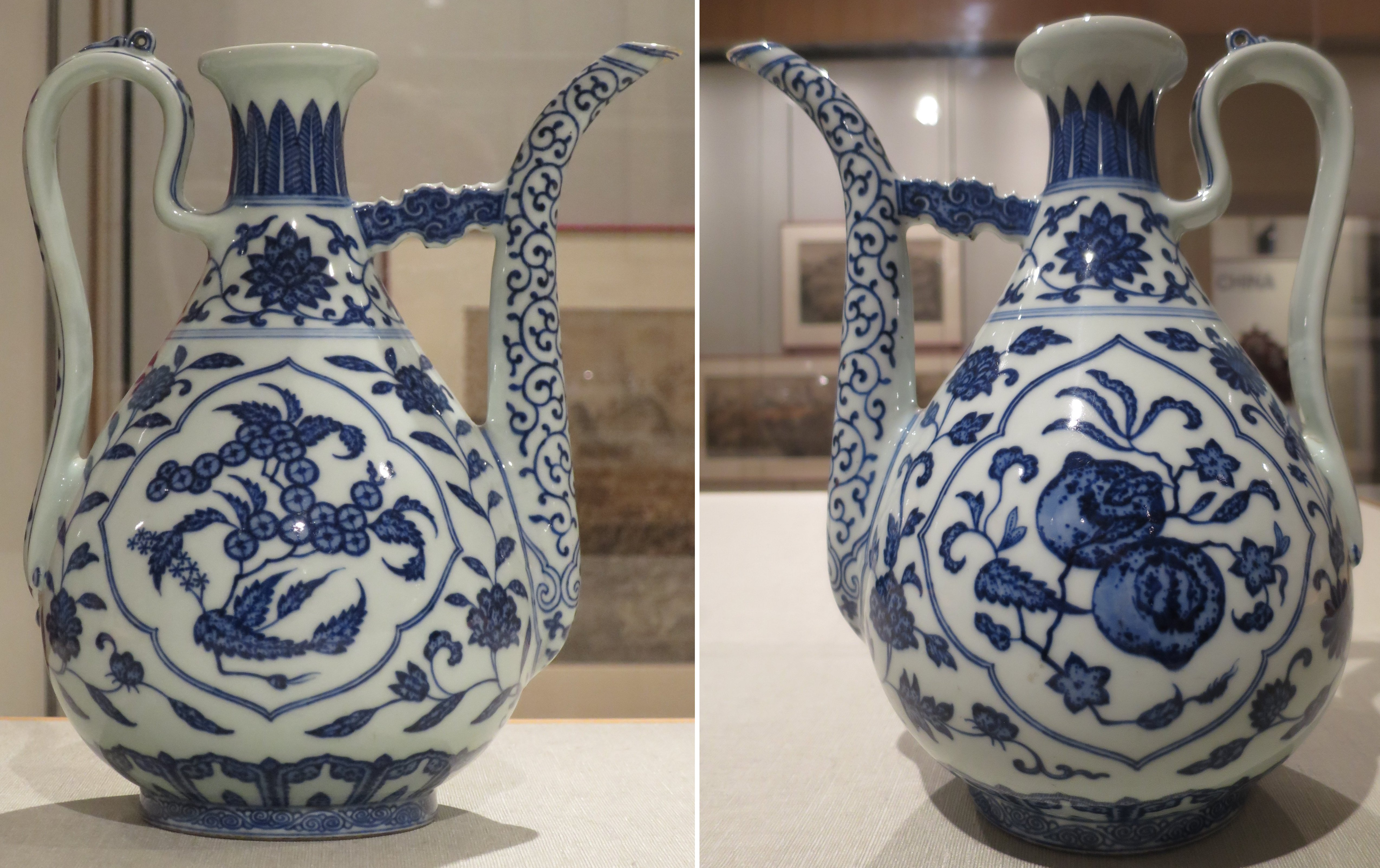 Ewer, China, Qing dynasty, Qianlong period (1736-1796), porcelain with underglaze cobalt oxide decoration, Honolulu Museum of Art accession 174